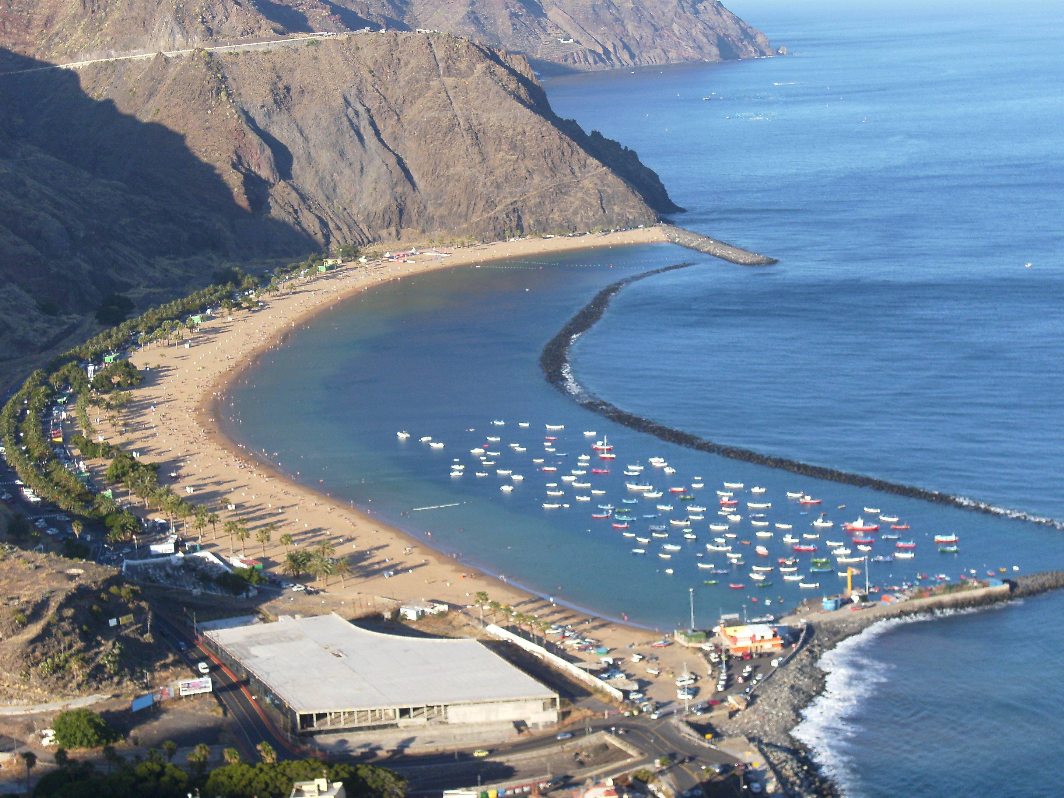 Playa de Las Teresitas (Tenerife)